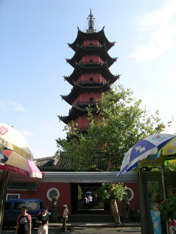 Tian Feng Pagoda